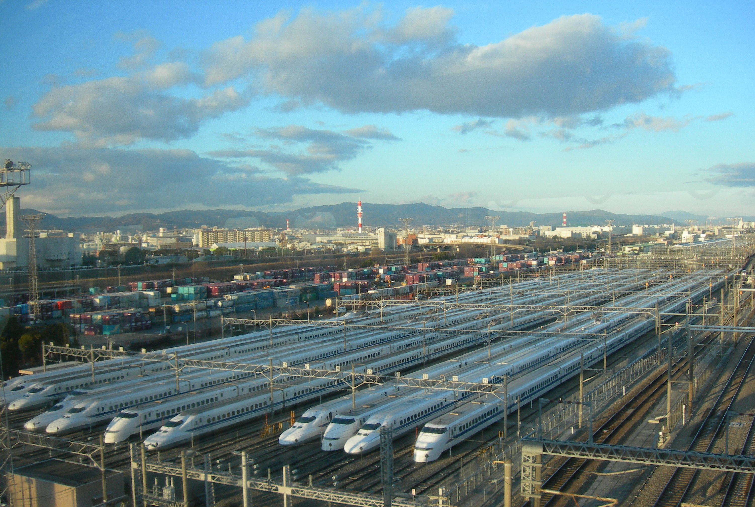 JR West's Torikai Depot on the Tokaido Shinkansen